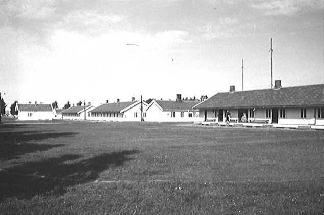 Værnesmoen, not Værnes Air Station, in 1936